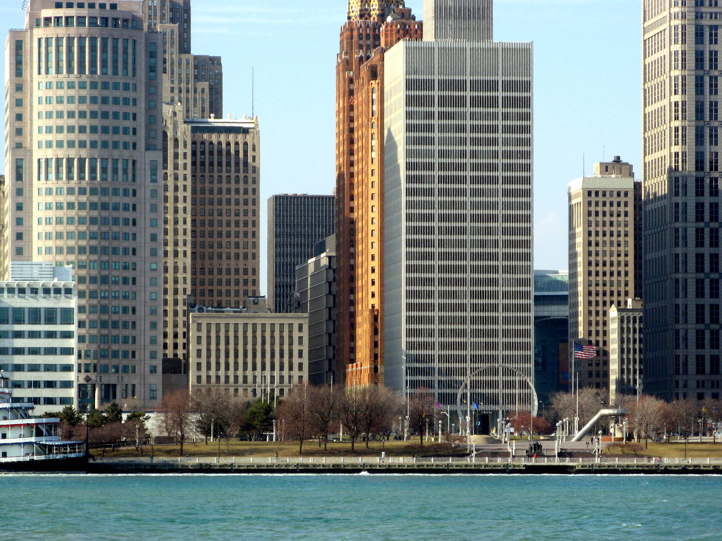 Zooming in on Detroit